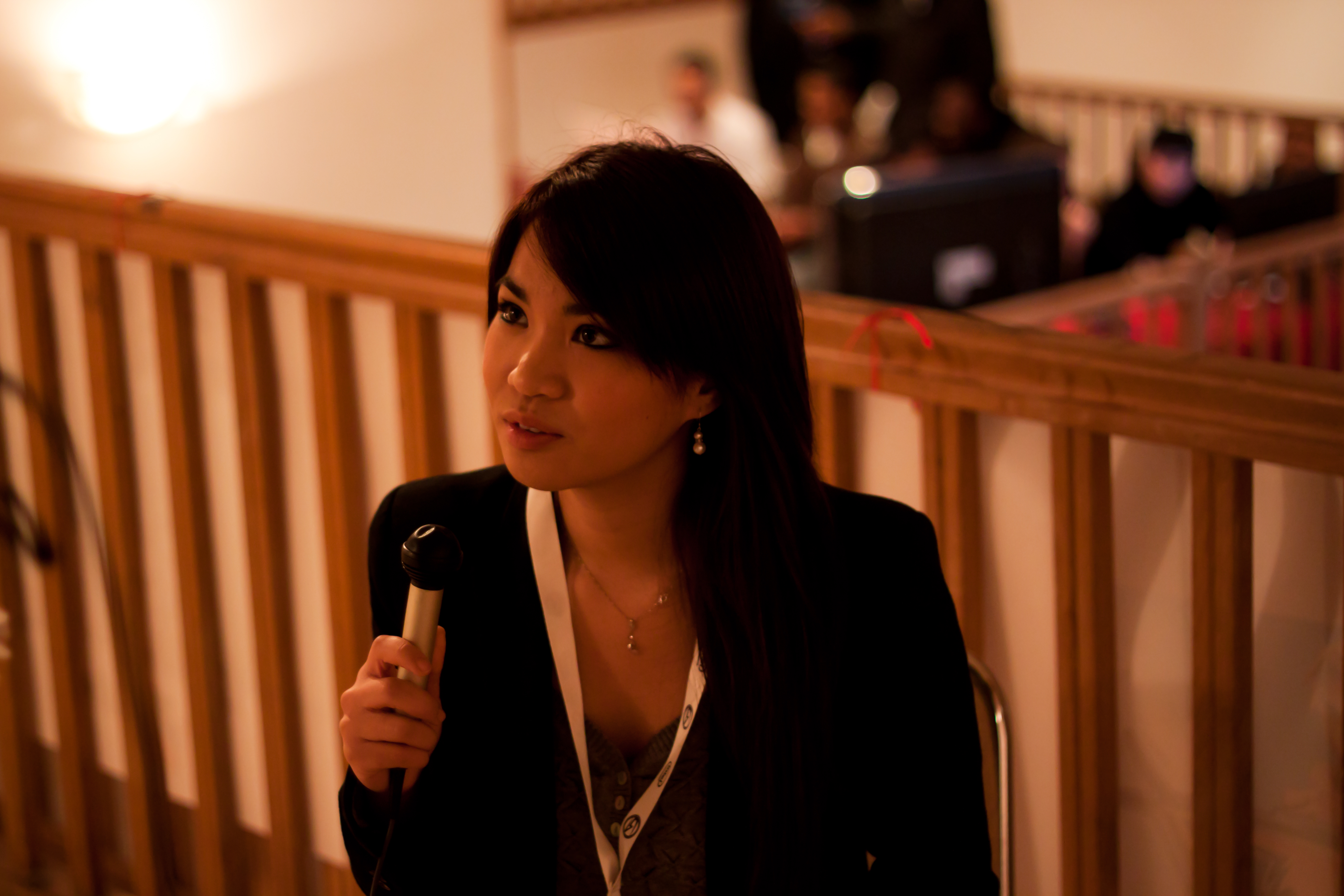 Bushido International - Décembre 2010